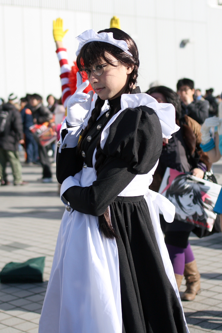 Roberta cosplayer at C77.